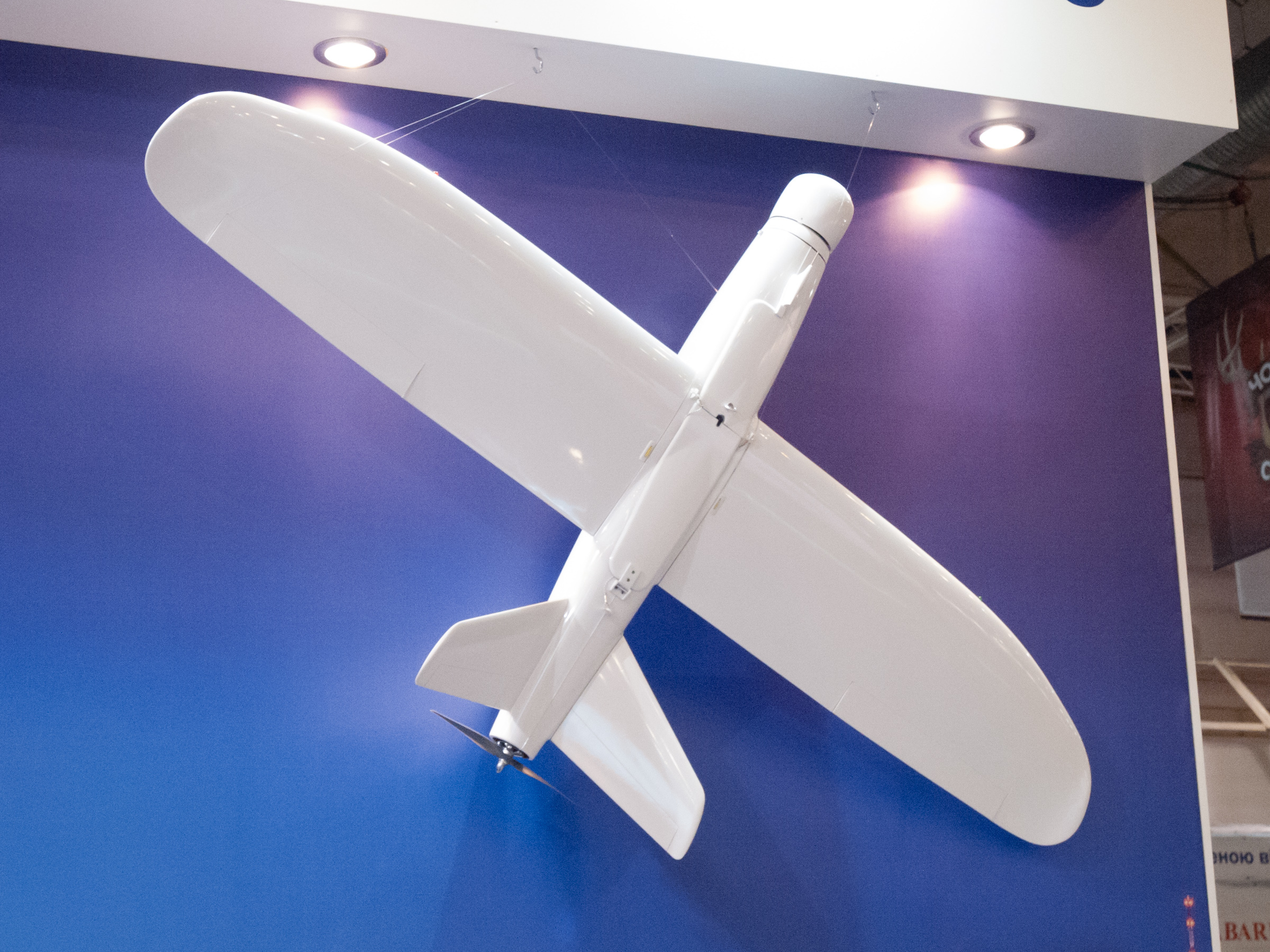 Deviro UAV (Ukraine)